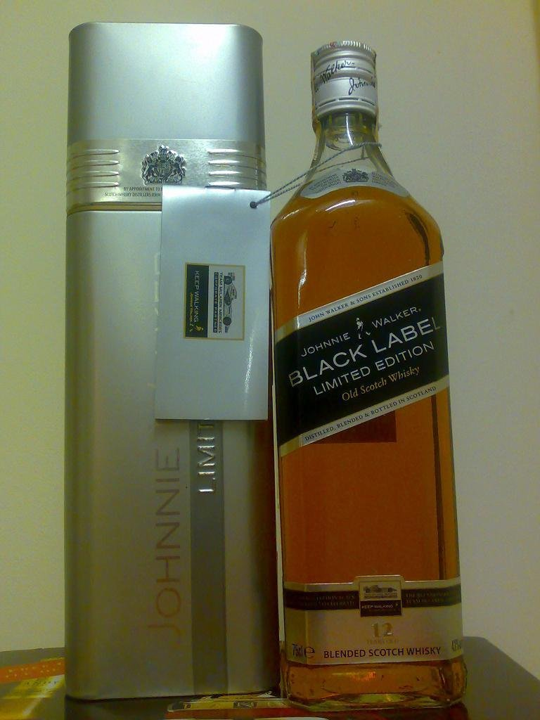 Johnnie Walker Black Label, the limited edition of Old Scotch Whisky for team McLaren Mercedes